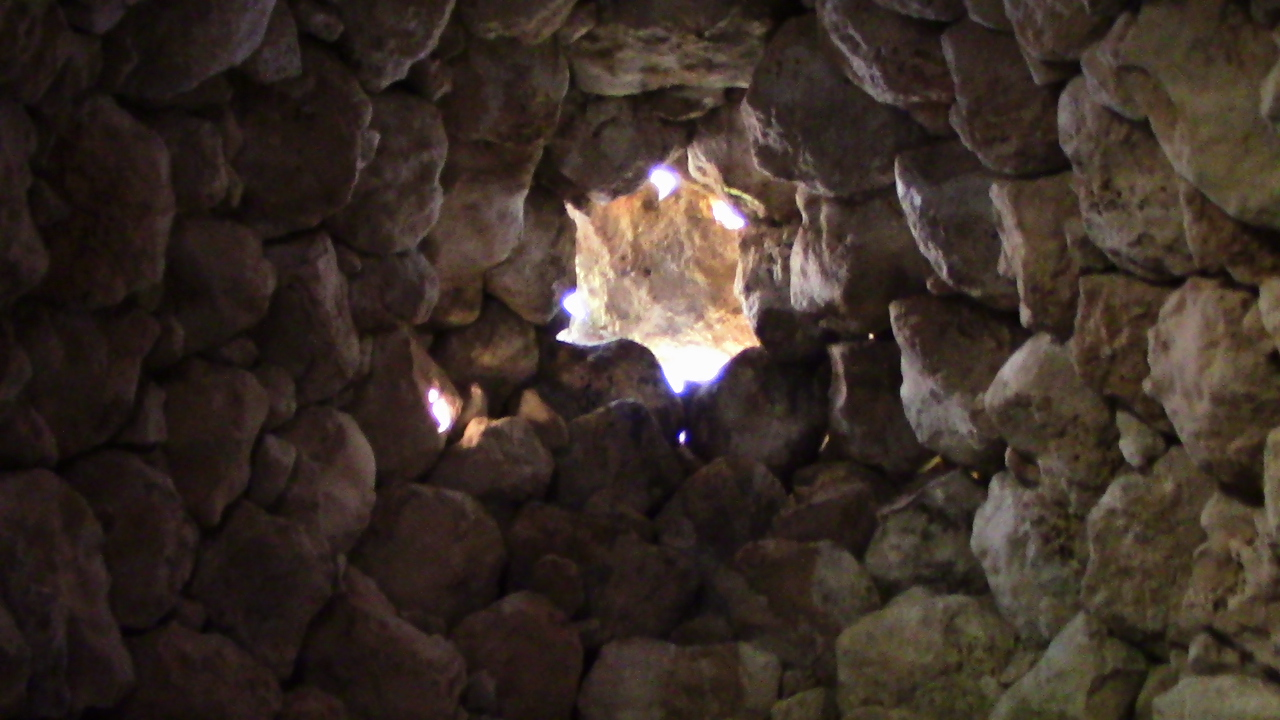 A Tazota ceiling, Municipality of Sidi Abed, Province of el-Jadida, Morocco